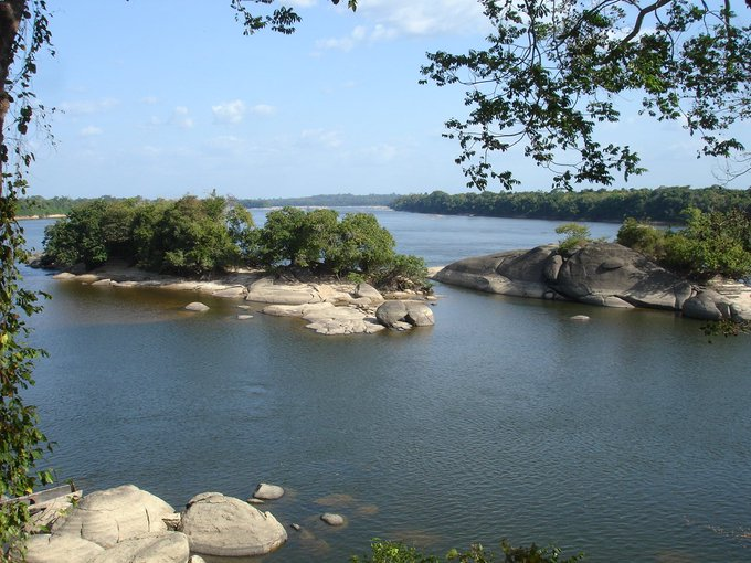 Caura National Park Guayana Region Venezuela 2